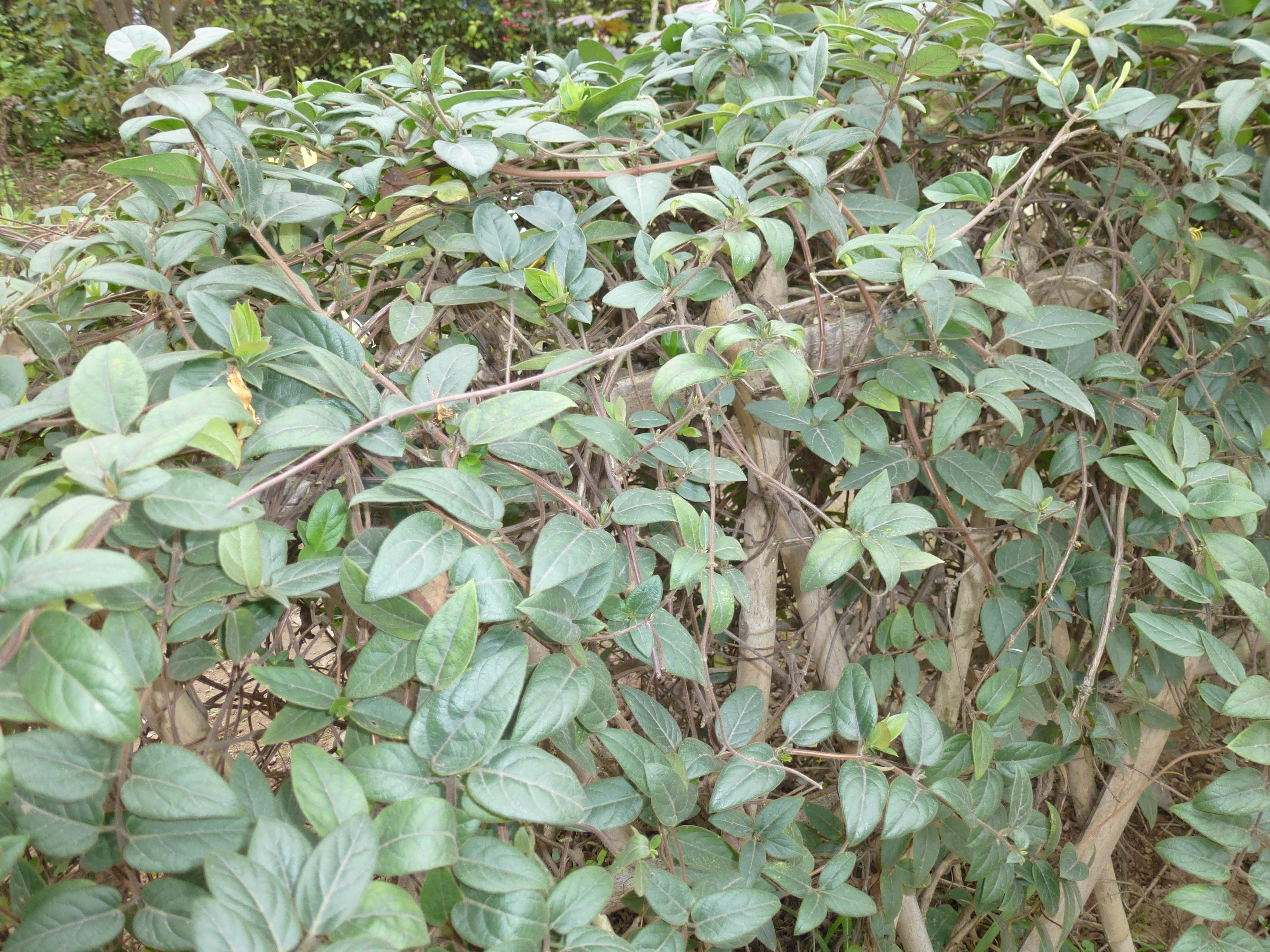 Lonicera japonica